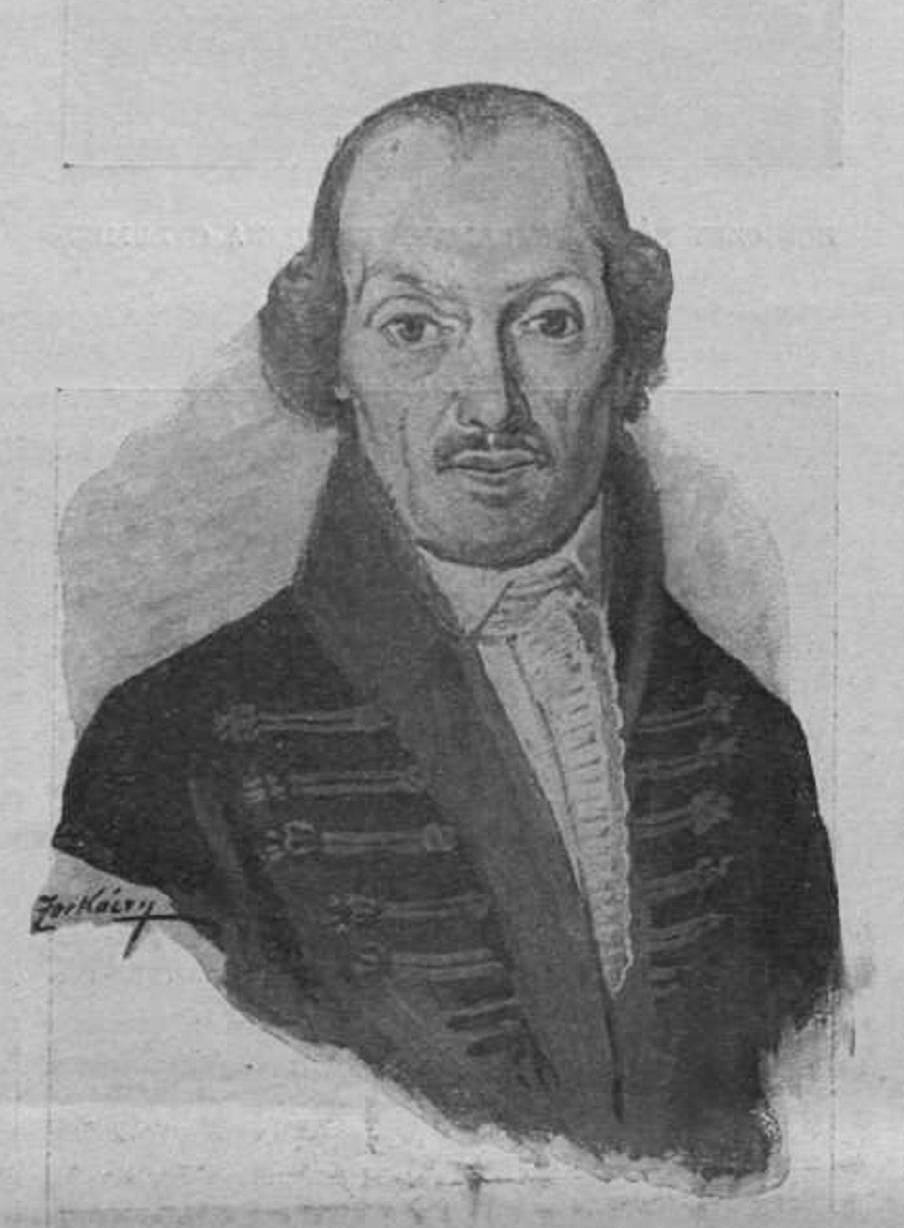 András Cházár